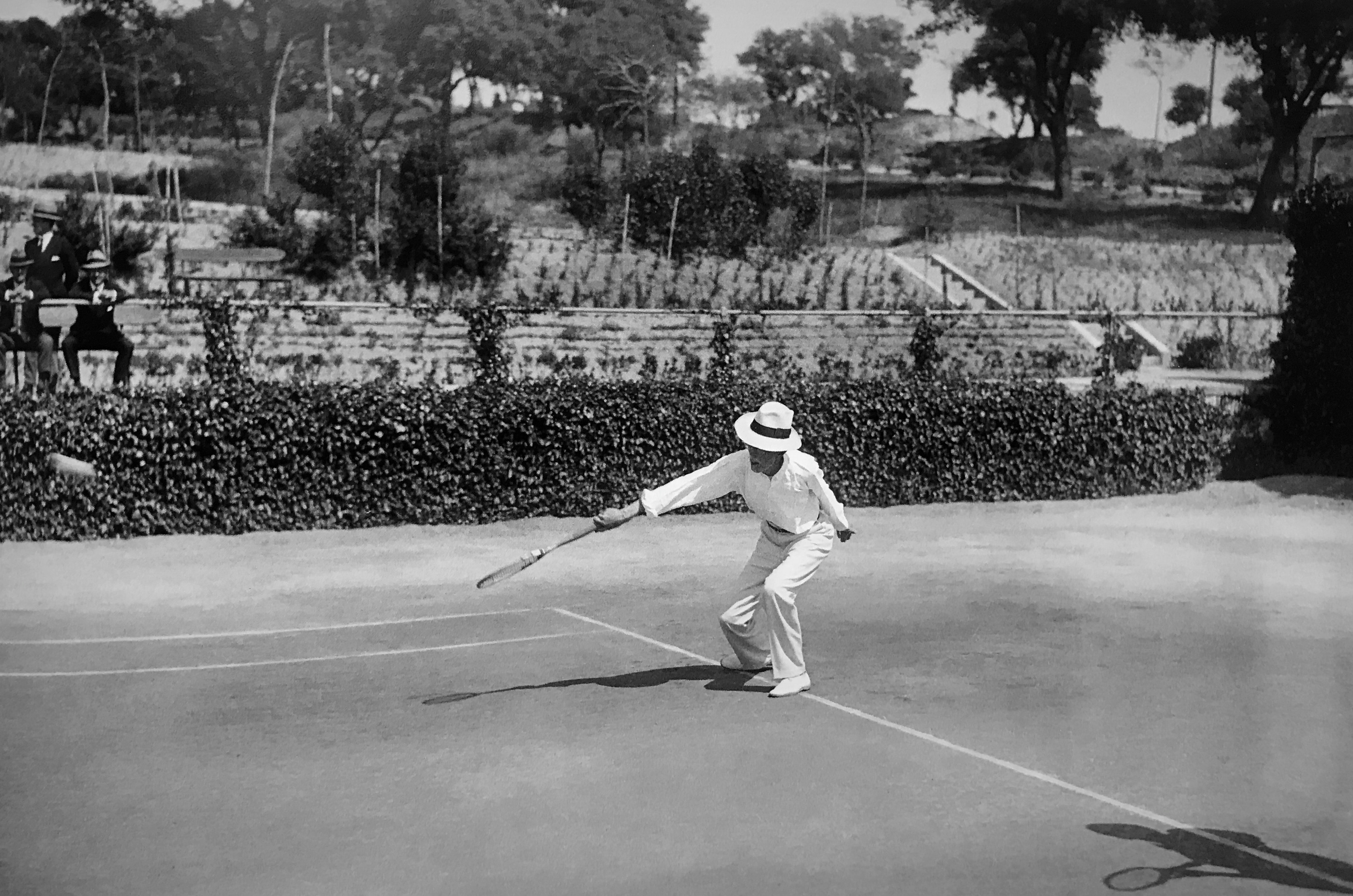 King Gustaf V of Sweden playing tennis at Real Club de la Puerta de Hierro in Madrid.